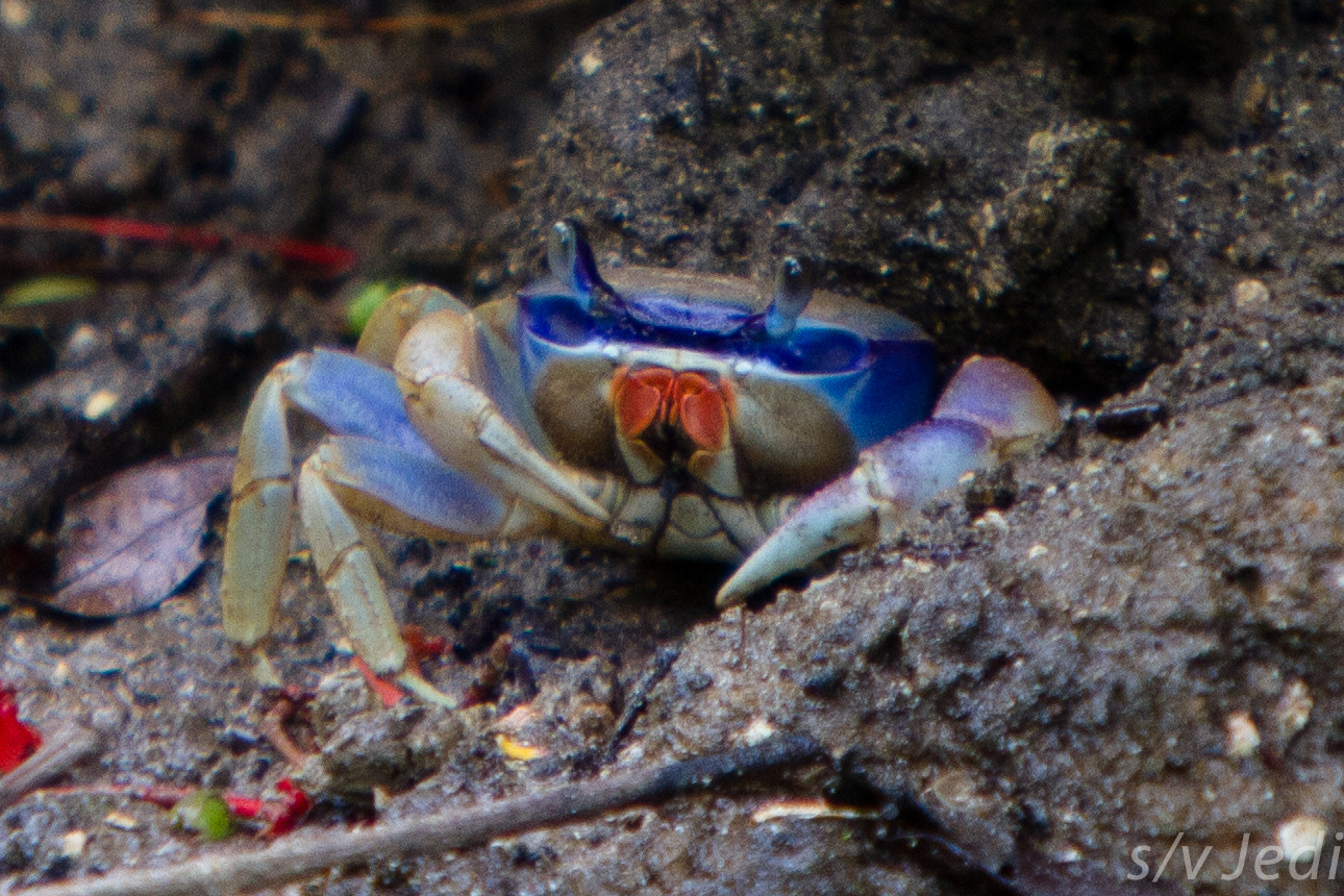 Blue Land Crab guarding his burrow in Fort Sherman, Colon, Panama